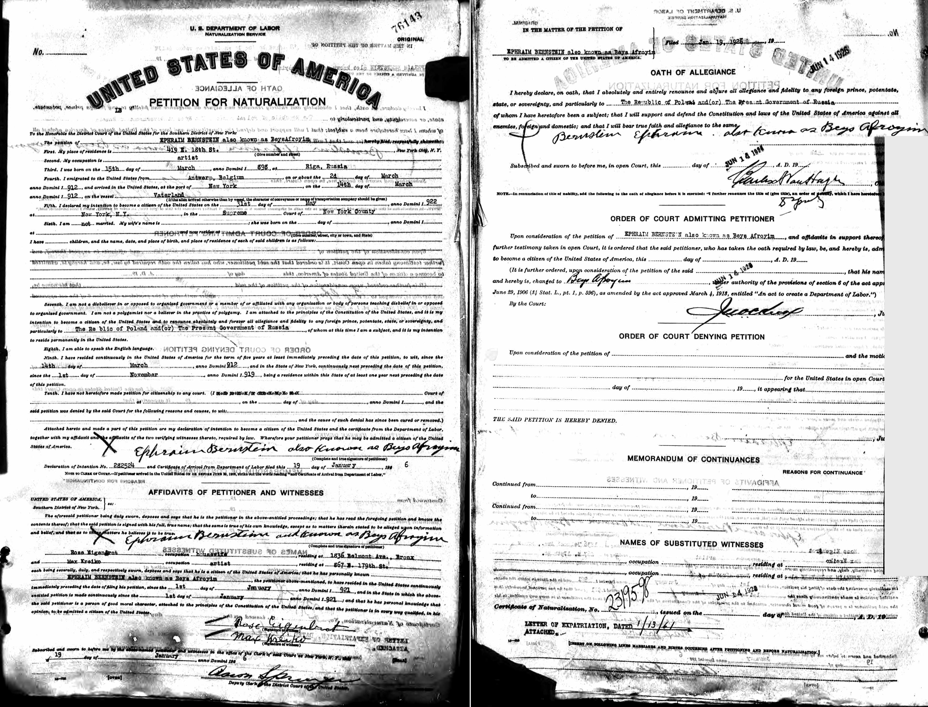 Naturalization record of Ephraim Bernstein (a.k.a. Beys Afroyim), who became the subject of a landmark 1967 U.S. Supreme Court decision on citizenship law, Afroyim v. Rusk. Two separate pages combined by me (Richwales) into a single image using GIMP. A small portion of the right-hand edge of the second page is unavailable because it was overlaid in the photocopy by a 1961 letter stating that Afroyim's citizenship had been revoked.